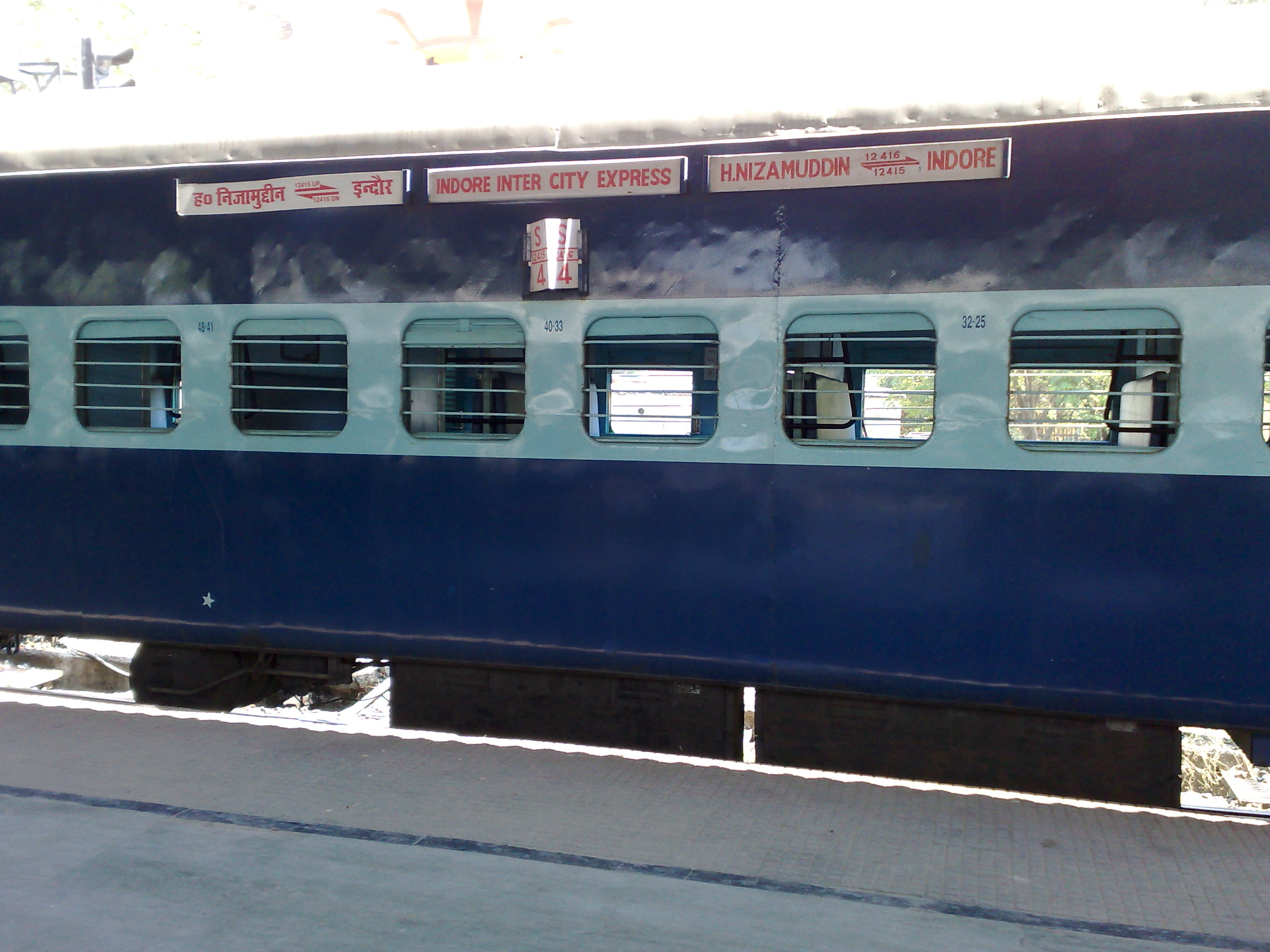 12416 Indore Intercity Express (2)